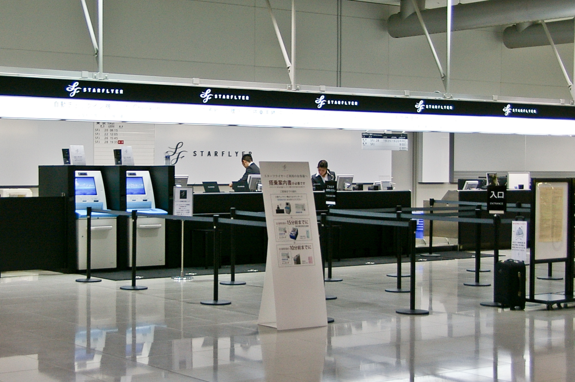 Photograph of the domestic check-in counter of StarFlyer in the second floor of the southern wing at the Kansai International Airport Passenger Terminal Building, Tajiri, Osaka Prefecture, Japan. The check-in counter has black design features similar to that of the fuselage of StarFlyer aircraft. The check-in machines are similar to those of All Nippon Airways. The author used Adobe Photoshop Lightroom 1.3.1 to adjust the color tones.